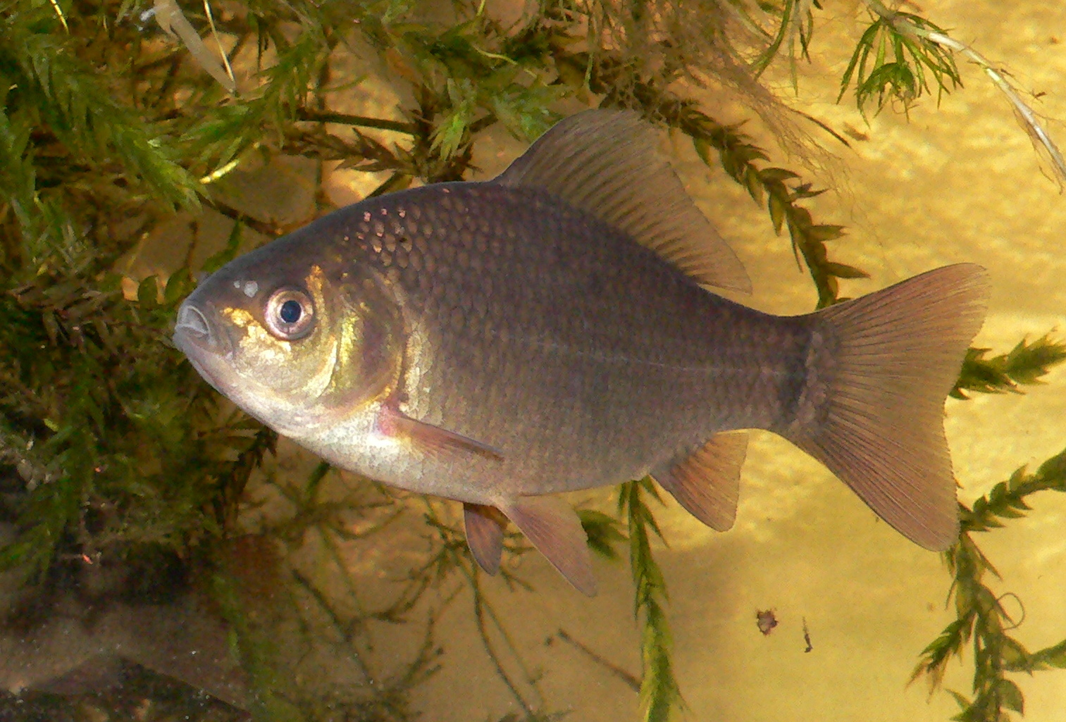 Crucian carp, around 6 months old, 7 cm, from Haarlem, the Netherlands. The eyespot at the base of the tail is fading a little. Observable traits: 33 scales along lateral line, form of dorsal and tail fin (little indentation), body shape high and flat, snout rounded with somewhat upward pointed mouth, color bronze yellow, abdominal and pectoral fins little reddish.